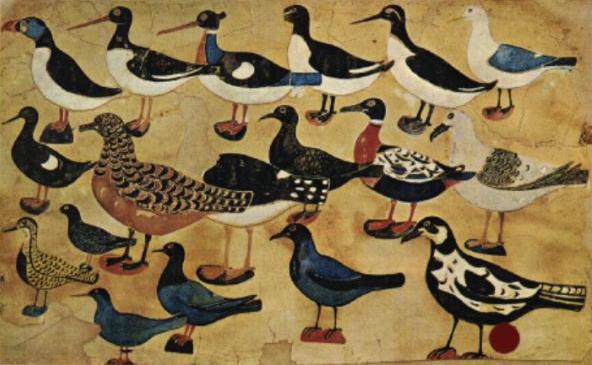 Name: 18 fuglar (18 birds) Text: Painting of Birds, 27x39cm